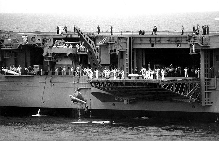 The Gemini IV space capsule is lifted aboard USS Wasp (CVS-18) on 7 June 1965, after completing a 62 revolution flight around the Earth in 97 hours and 56 minutes. The spacecraft, crewed by Astronauts James A. McDivitt and Edward H. White, landed about 48 miles short of its target and some 400 miles east of Cape Kennedy, Florida, at 12:12 PM Eastern Standard Time on 7 June. The National Aeronautics and Space Administration Gemini IV mission covered over 1,600,000 miles in the longest multimanned space flight yet flown.